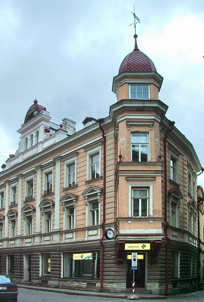 Suur-Karja 15 in Tallinn old town; Estravel office